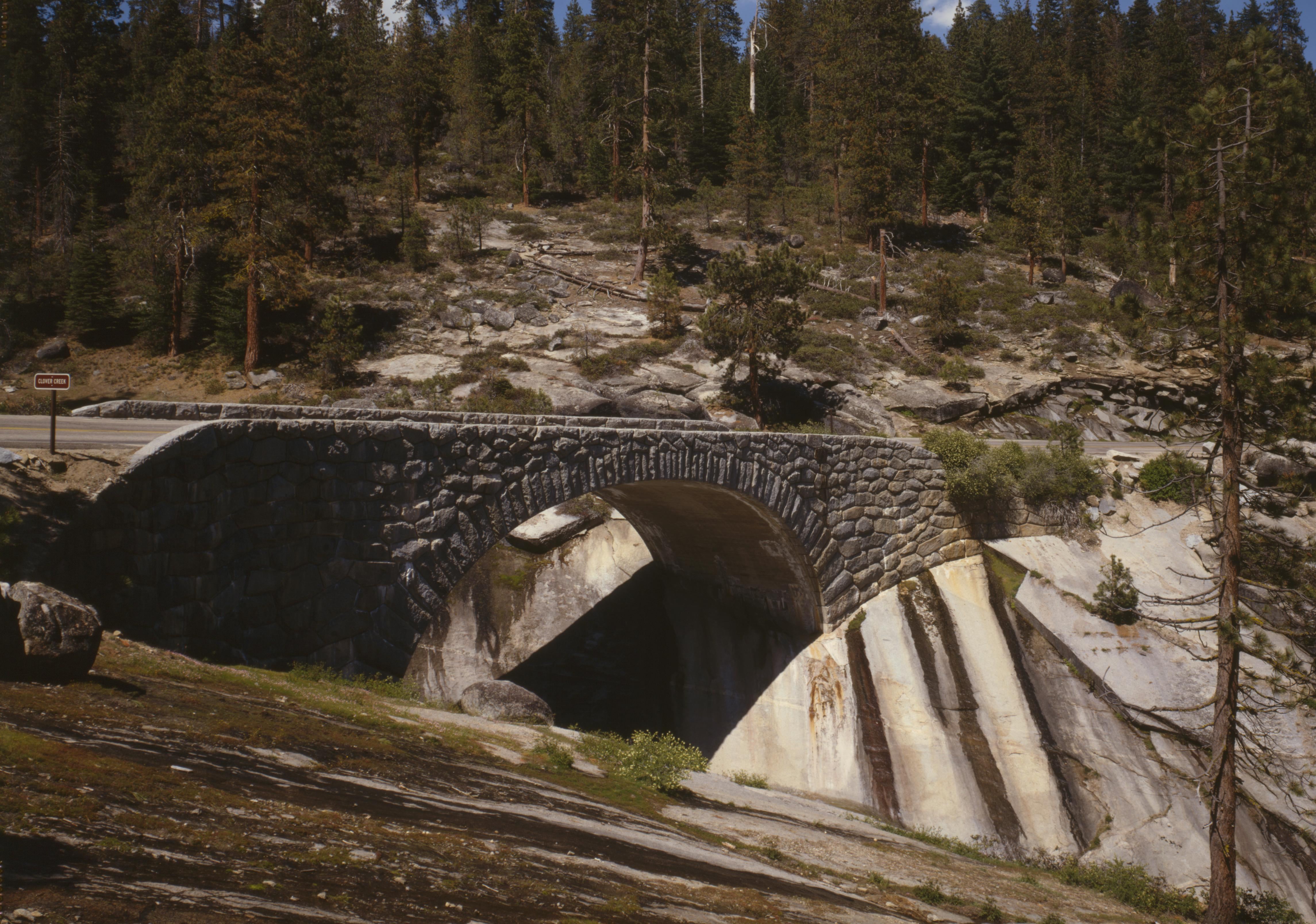 Clover Creek Bridge, Spanning Clover Creek on Generals Highway, Sequoia National Park — Three Rivers vicinity (Tulare County, California).